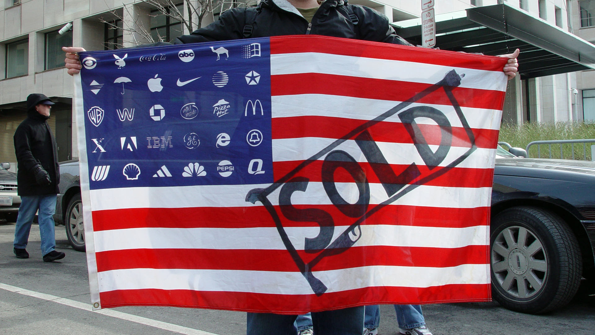 Protester holding Adbuster's Corporate American Flag at Bush's 2nd inauguration, Washington DC.